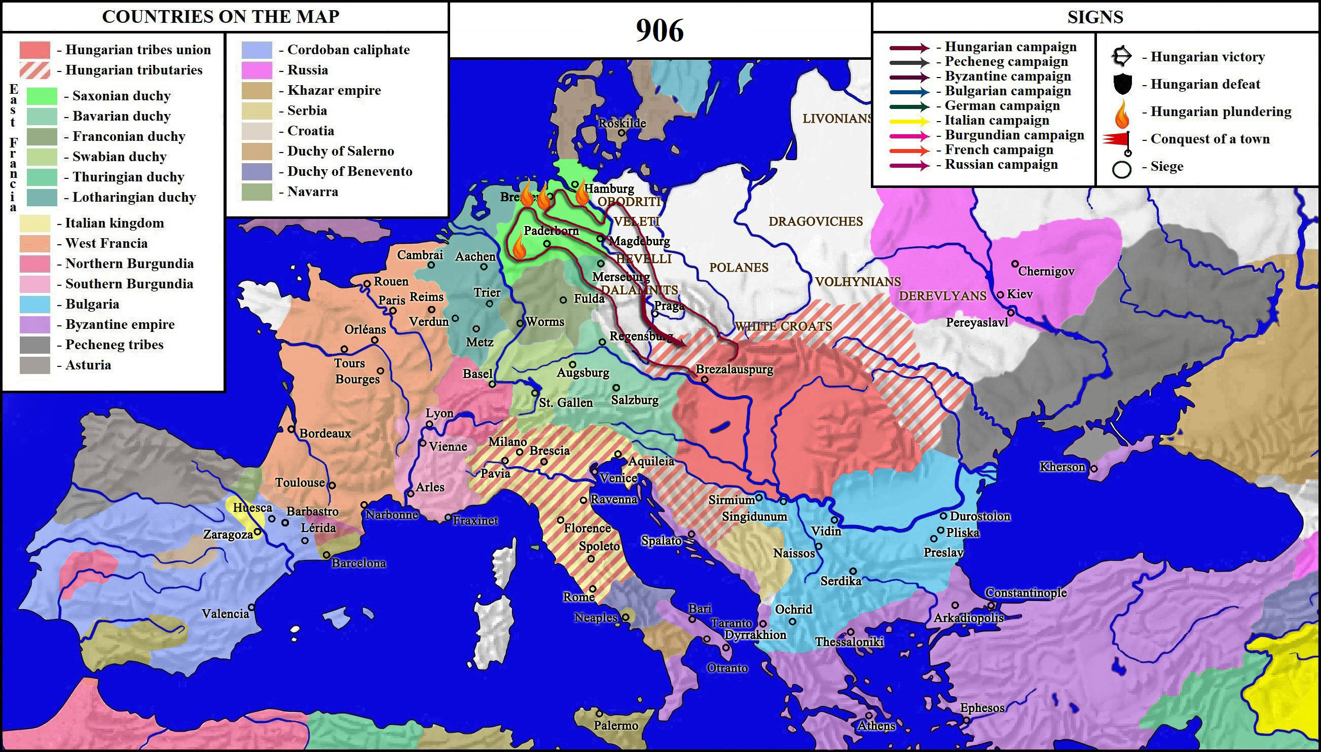 The Hungarian campaign in Saxony oftwo Hungarian armies in 906